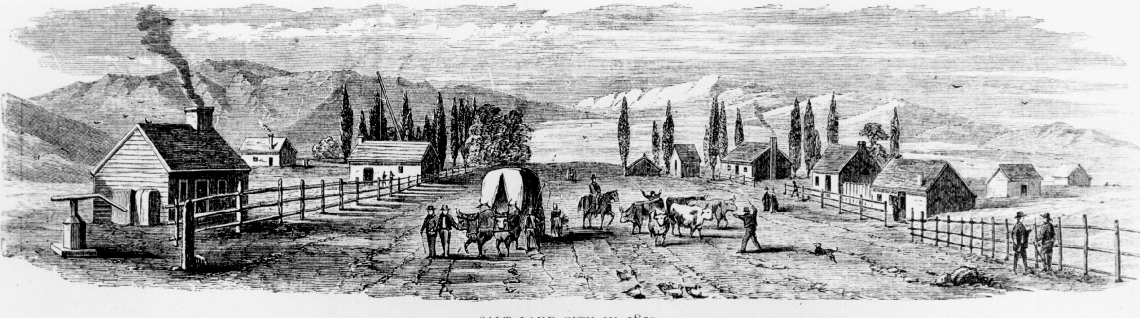 "Salt Lake City in 1850." Engraving from American Pictures Drawn with pen and ink by Samuel Manning, working for Department of Commerce; Bureau of Public Roads.